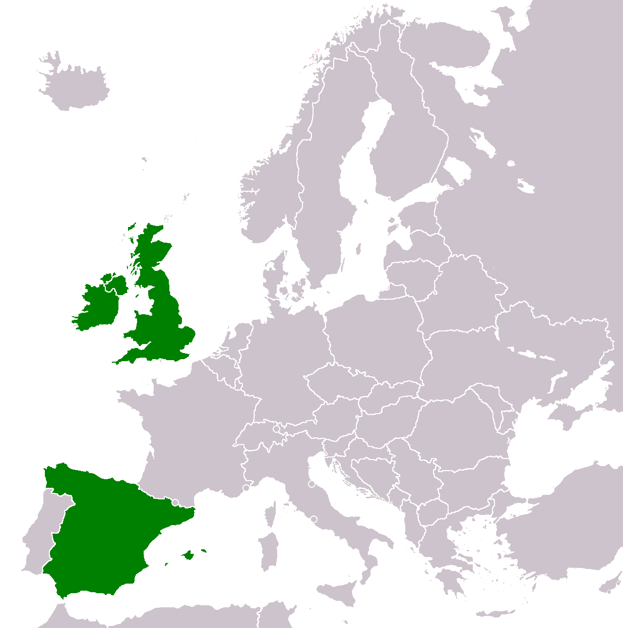 Dunnes Stores in Europe